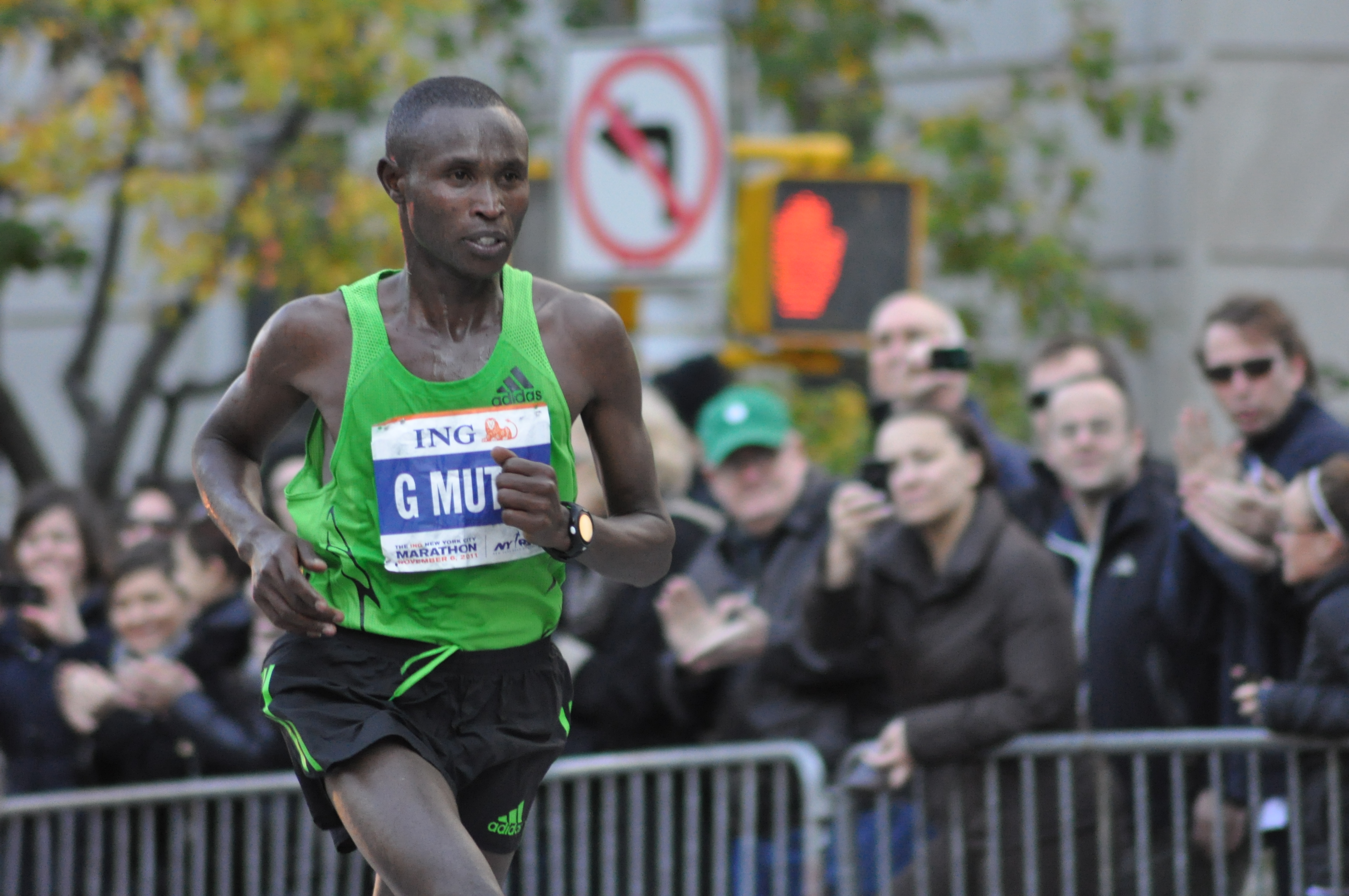 Geoffrey Mutai NYC 2011 marathon